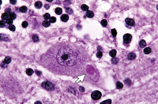 Neuron showing a cytoplasmic inclusion body (Negri body, arrow).